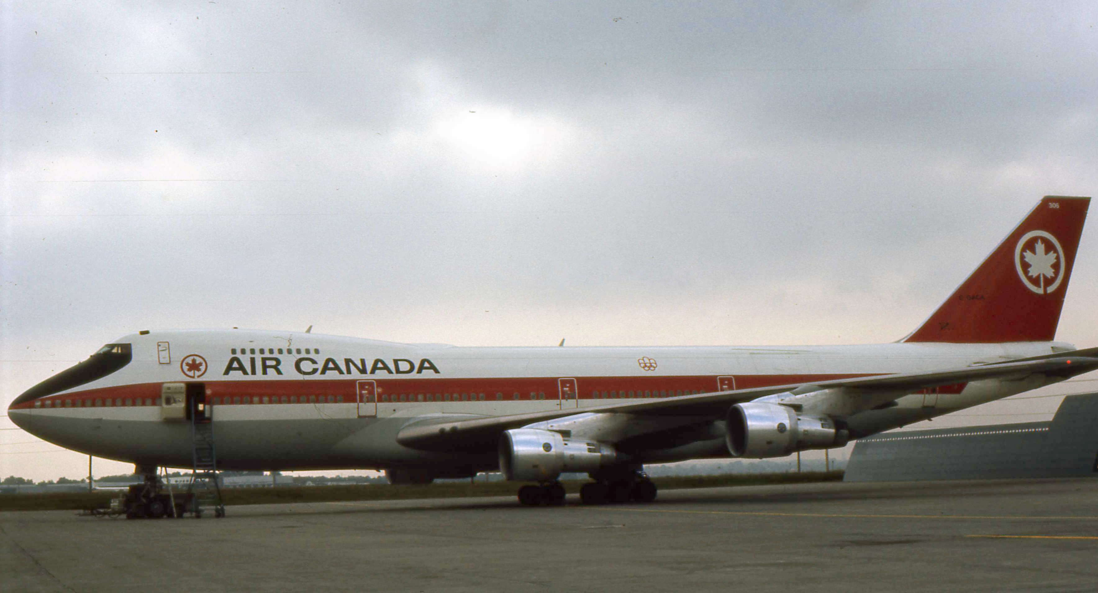 Canada, Air Canada Boeing 747-233 C-GAGA, c/n 20977/250, first flight in 1974-11-18 as N8287V. Delivered to Air Canada in 1975-03-07 as C-GAGA. Leased to Garuda Indonesia Airways from April until July 1993. From Janaury 1999 is store at Pinal Airpark and used for spares. Here is taken at Air Canada maintenance base.